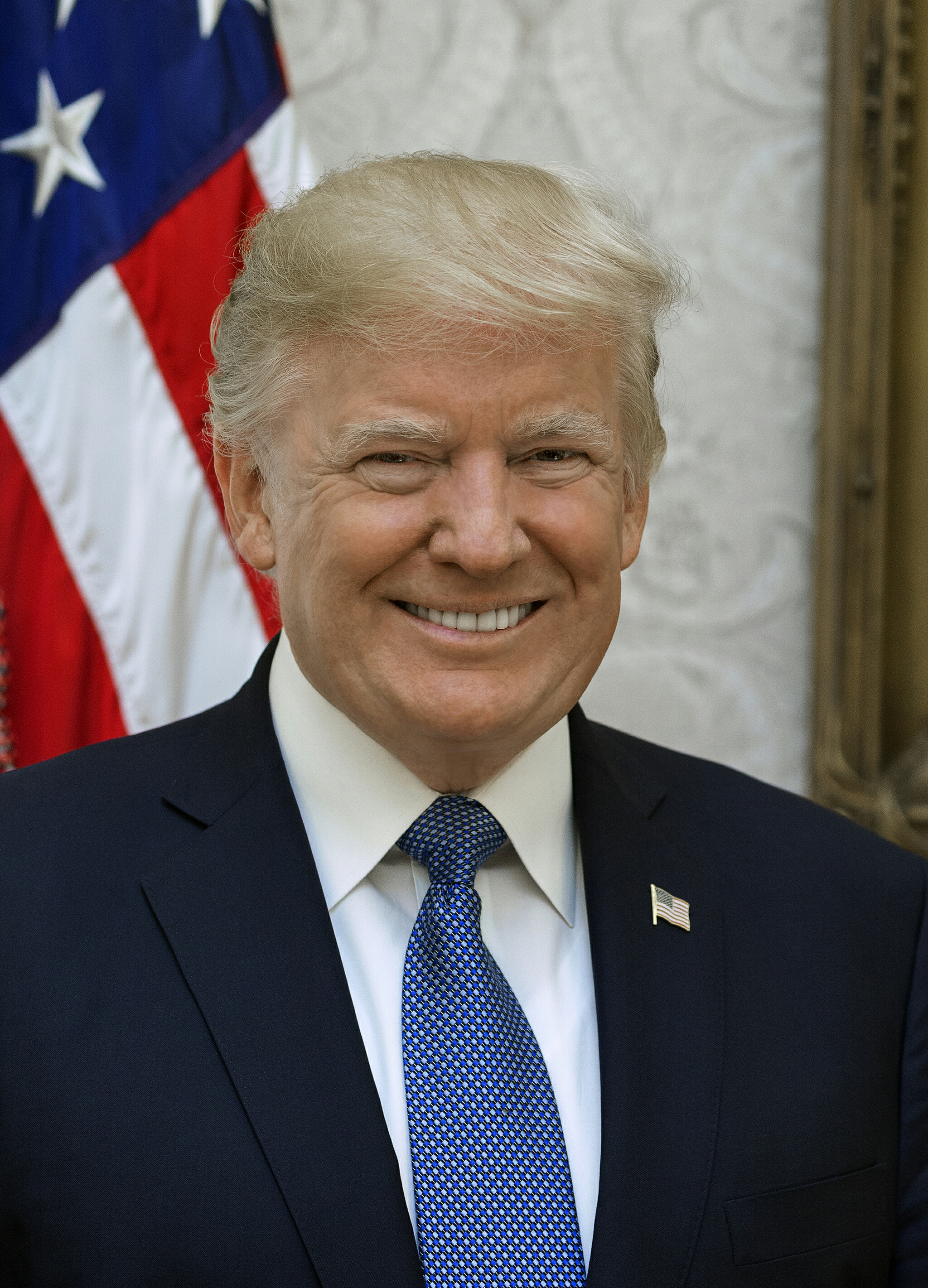 President Donald Trump poses for his official portrait at The White House, in Washington, D.C., on Friday, October 6, 2017. (Official White House Photo by Shealah Craighead)